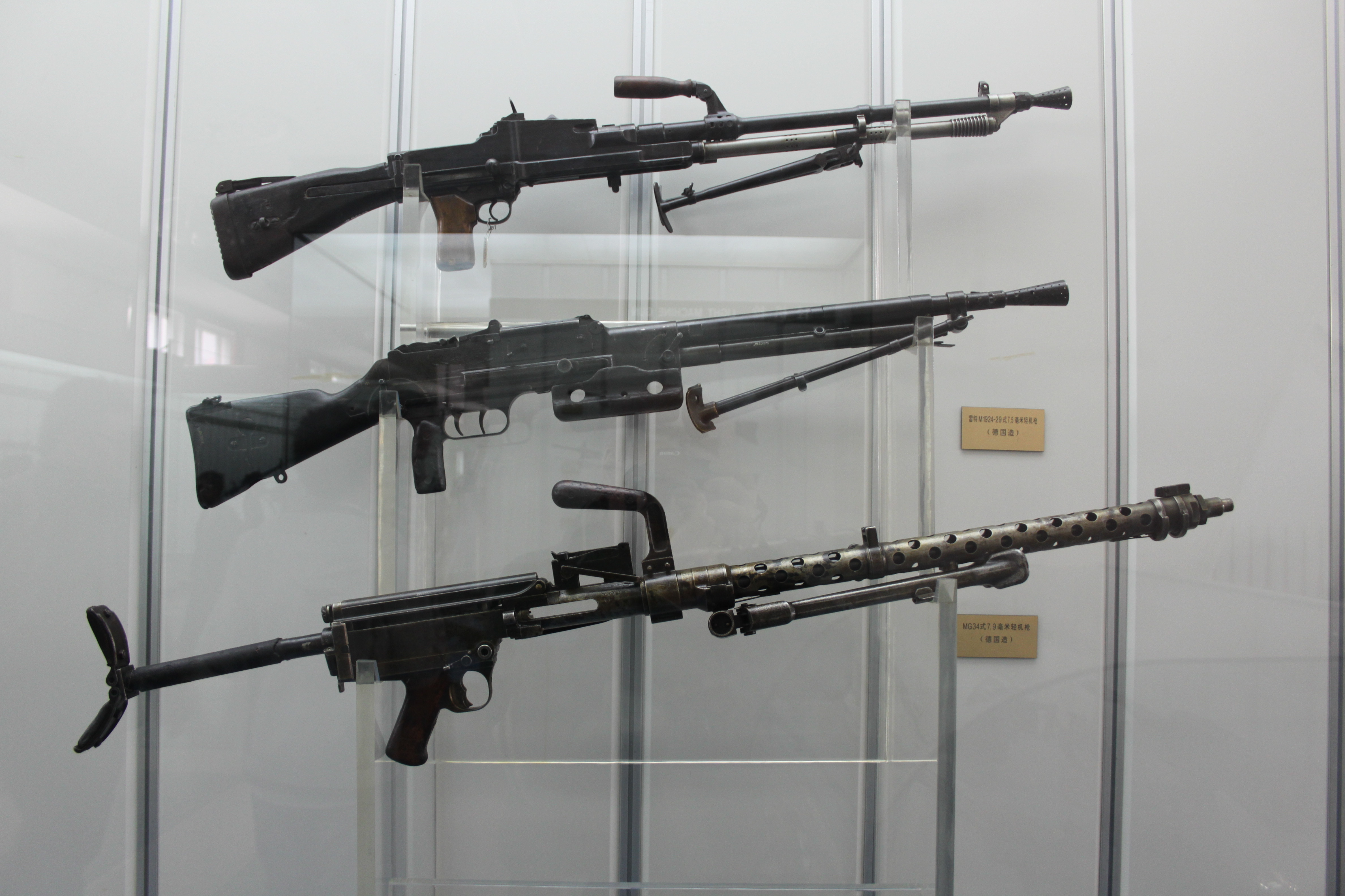 Military Museum: Modern Weapons, Small Arms Gallery. Complete indexed photo collection at .